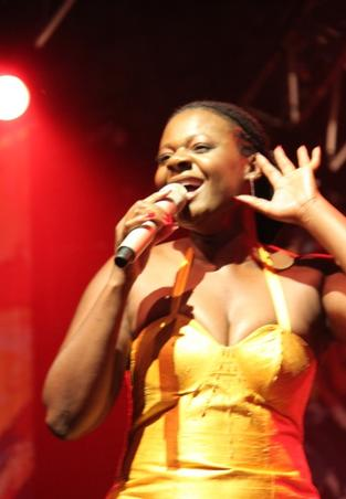 South African musician Judith Sephuma